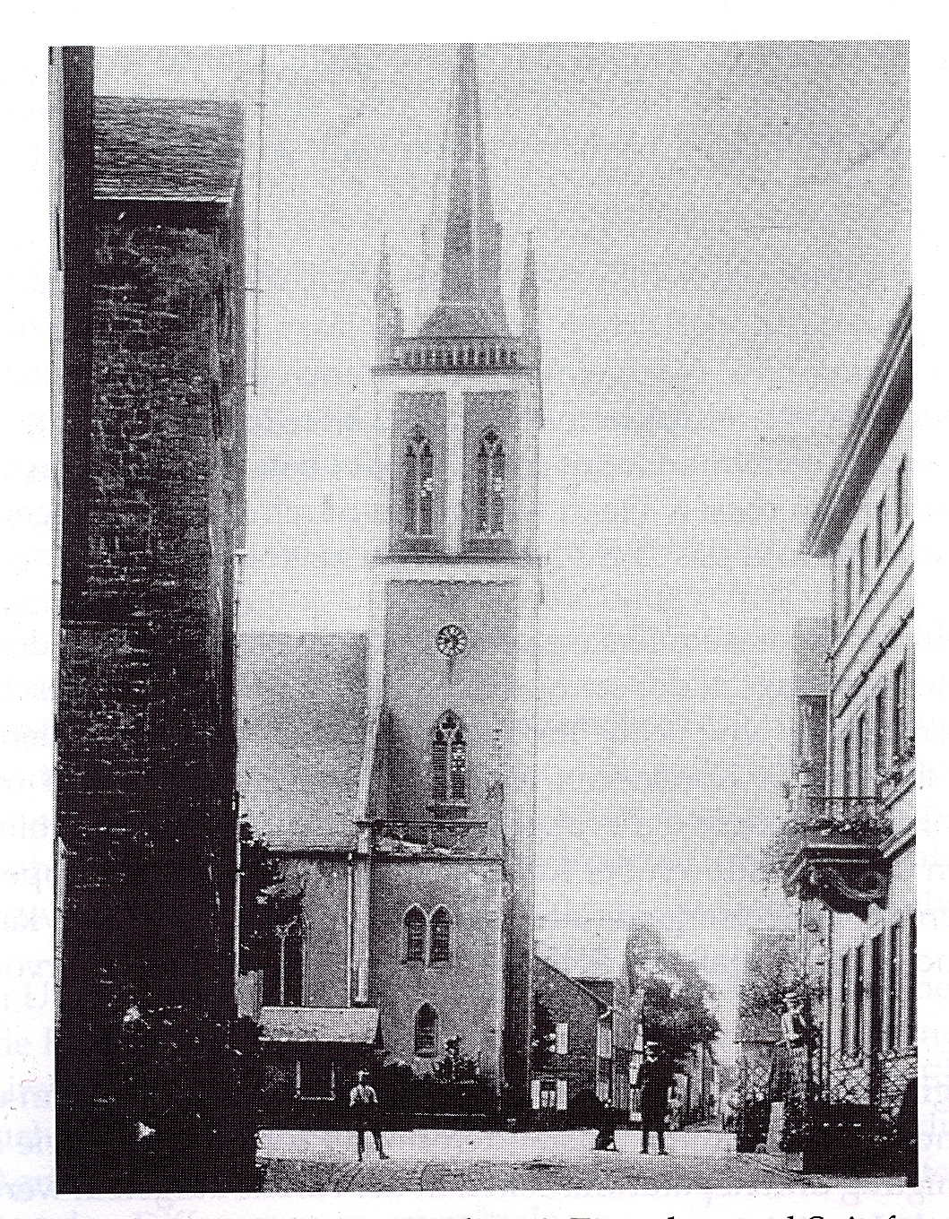 Friedrich Schmitt u.a.: Ortsgeschichte Langenlonsheim, Wiesbaden 1991 (hrsg. von der Ortsgemeinde Langenlonsheim), S. 331